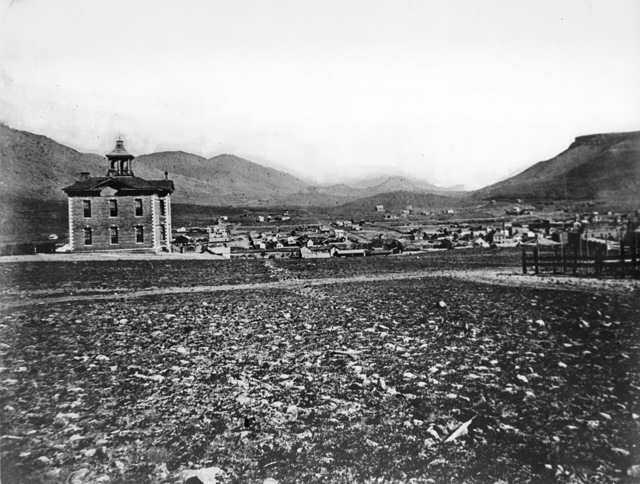 View north over Golden, Jefferson County, Colorado, shows South High School high on a hill on the west side of Cheyenne Street, between 3rd (Third) and 4th (Fourth) Streets (now 13th and 14th). The two-story brick schoolhouse was the first graded school in the county. Features include quoins, bell tower, and window hood molds with keystones. Scattered wood frame and brick buildings show downhill.